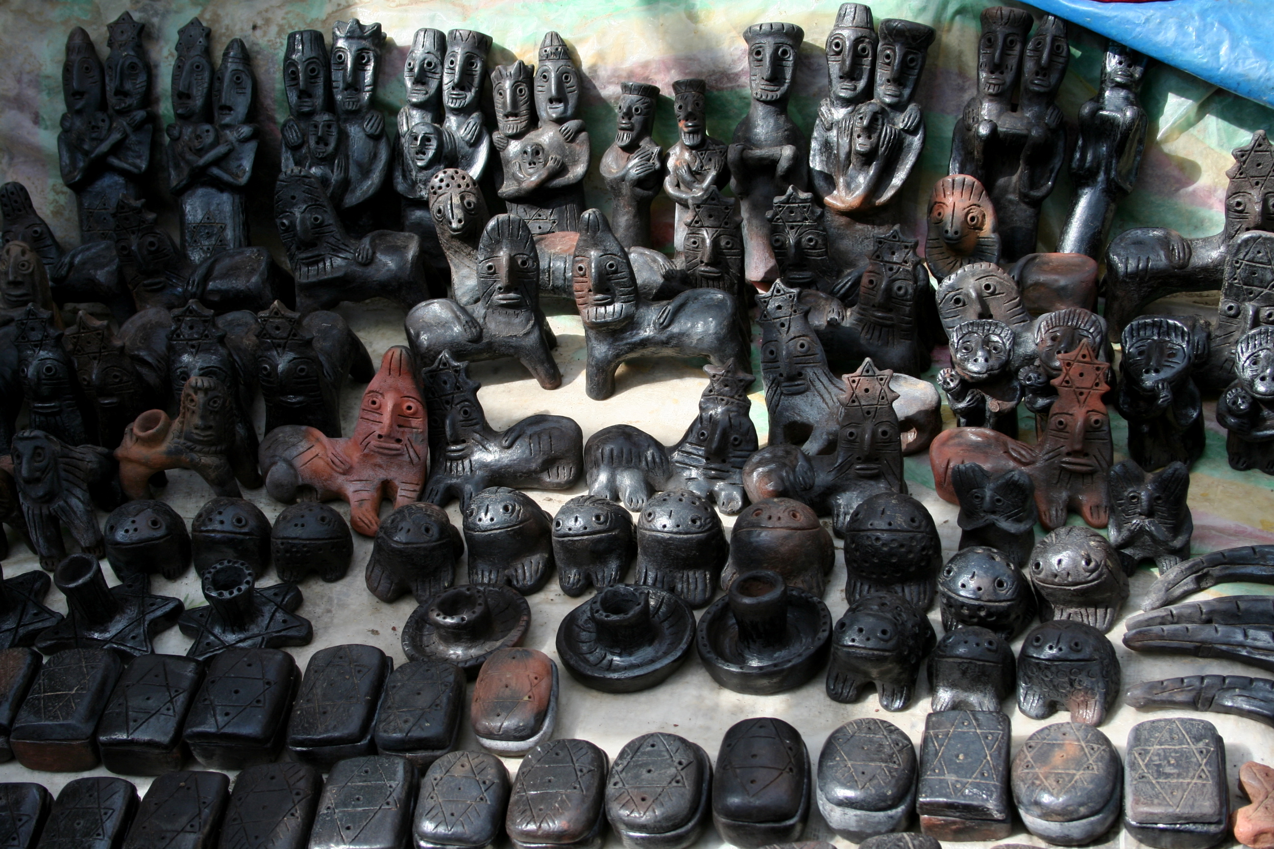 Pottery in the Falasha village in Gonder,Ethiopia